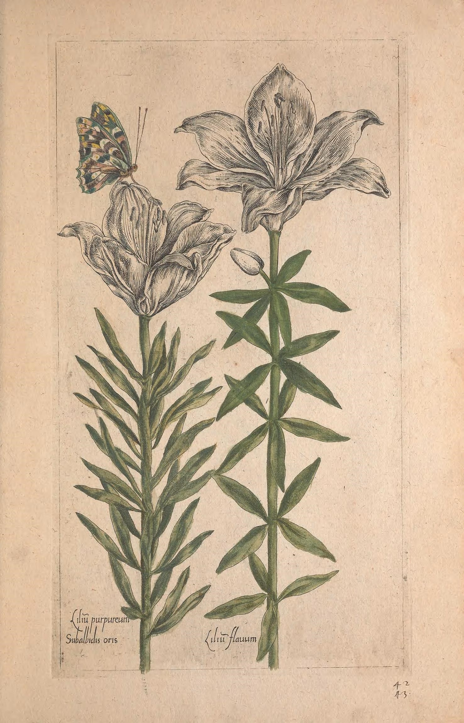 Jf-1.